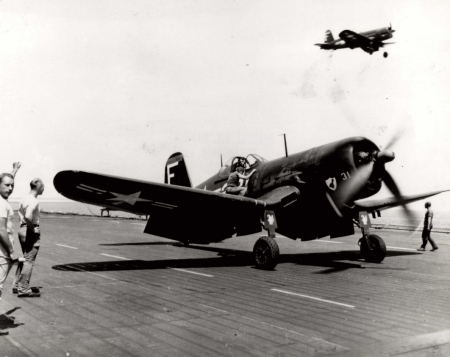 Alan Shepard's 105th Sortie with F4U-4 on USS Franklin D. Roosevelt (CVB-42)